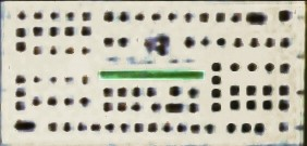 Oberheim OB-Mx Yury Chernavsky, Bel Air House production studios, LA, US